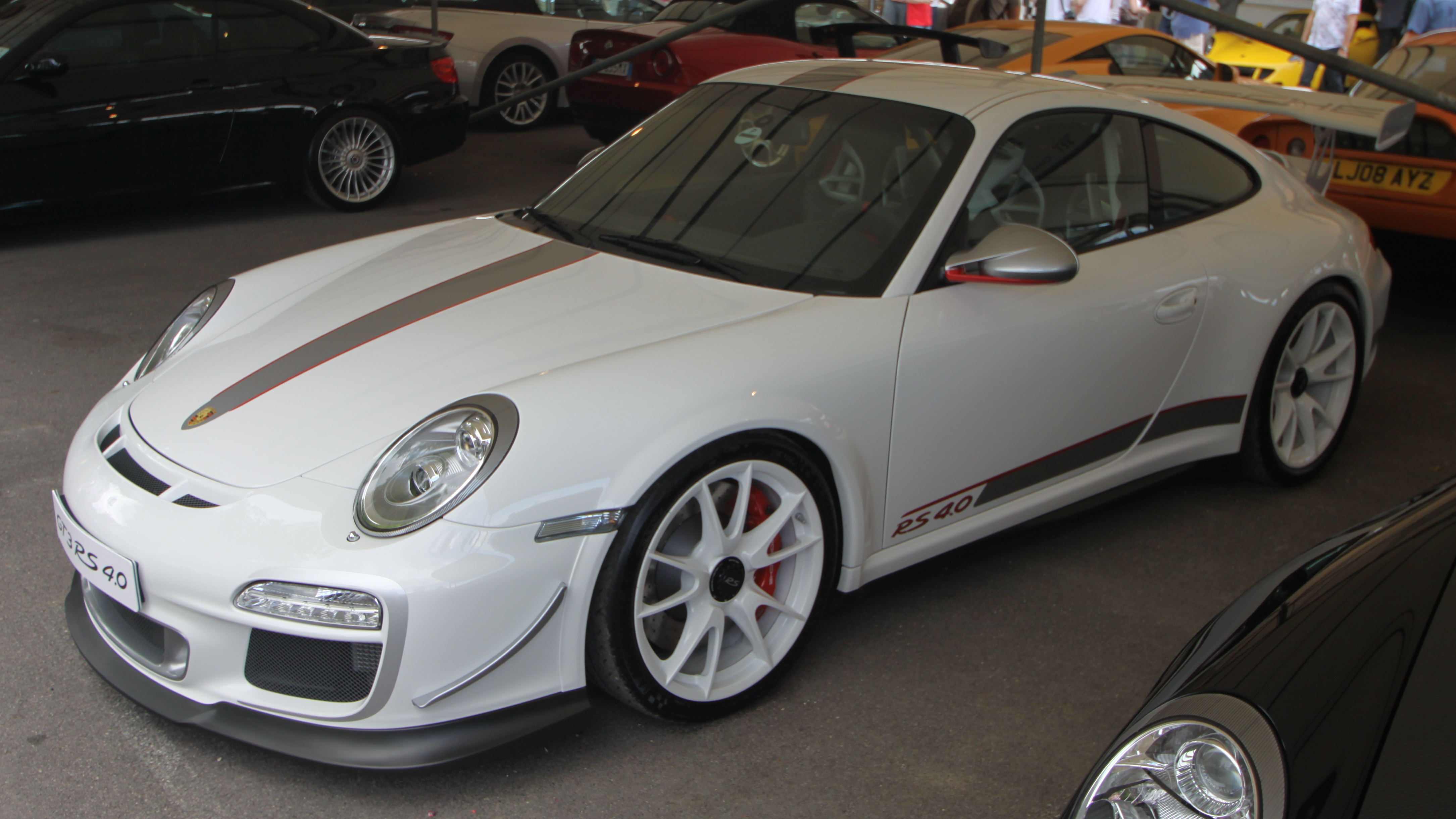 White Porsche 997 GT3 RS the Goodwood Festival of Speed 2011.IMG_2057